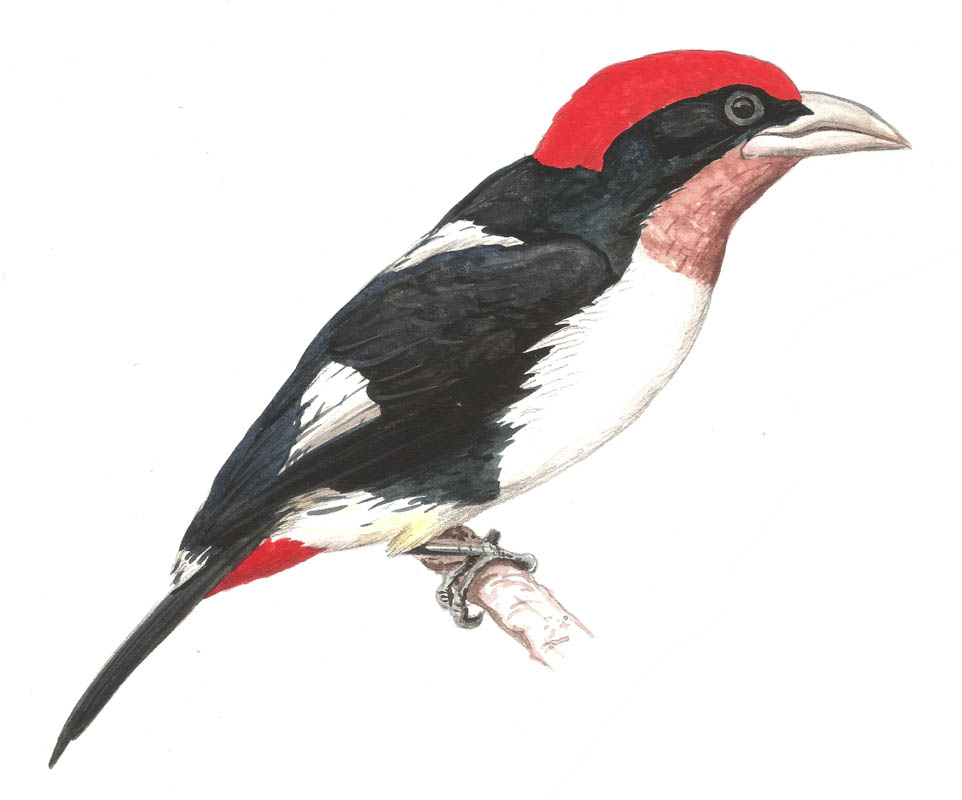 Black-girdled Barbet (Capito dayi) - Watercolor, Romain Risso.